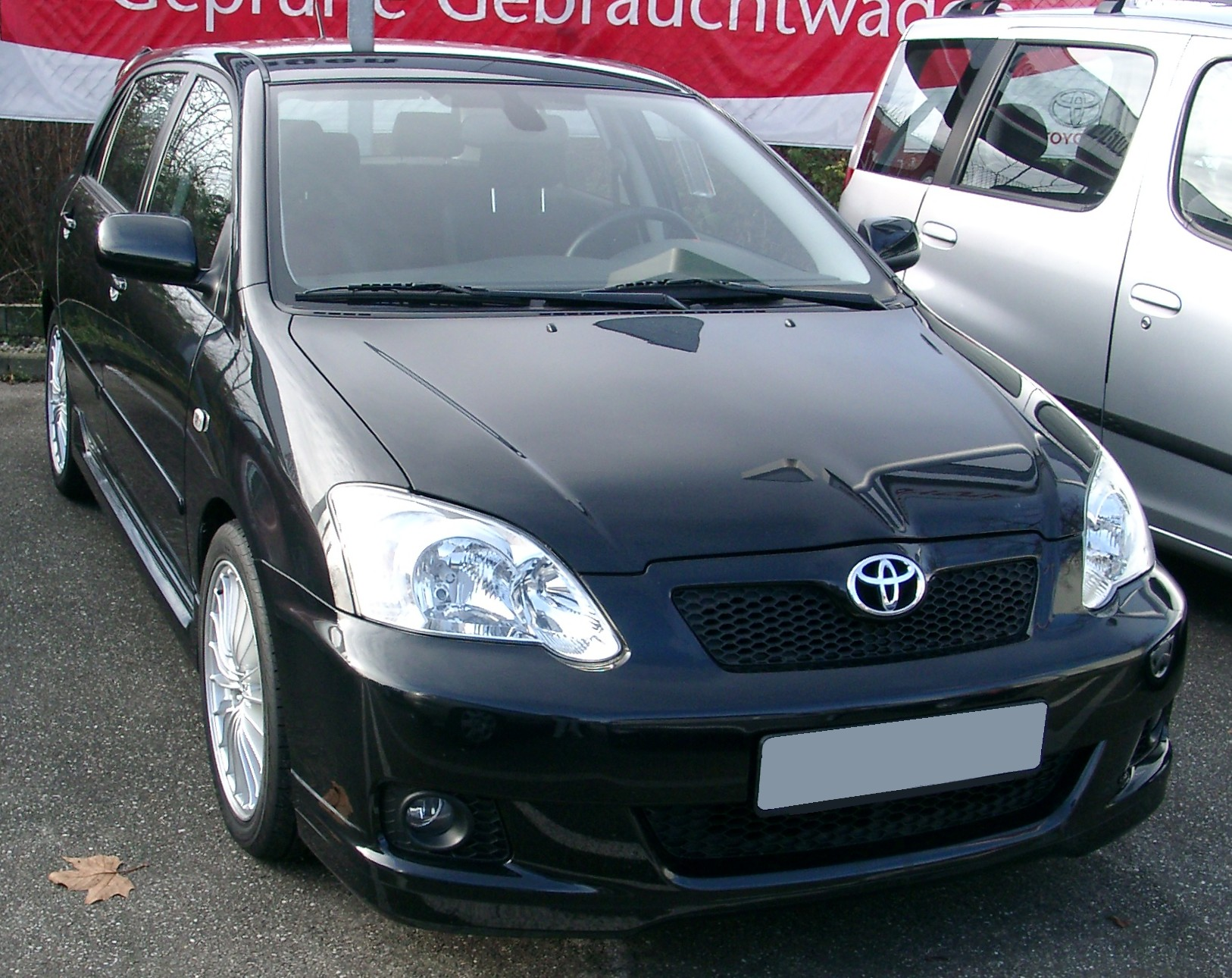 Toyota Corolla E120 (1.8 Compressor TS)